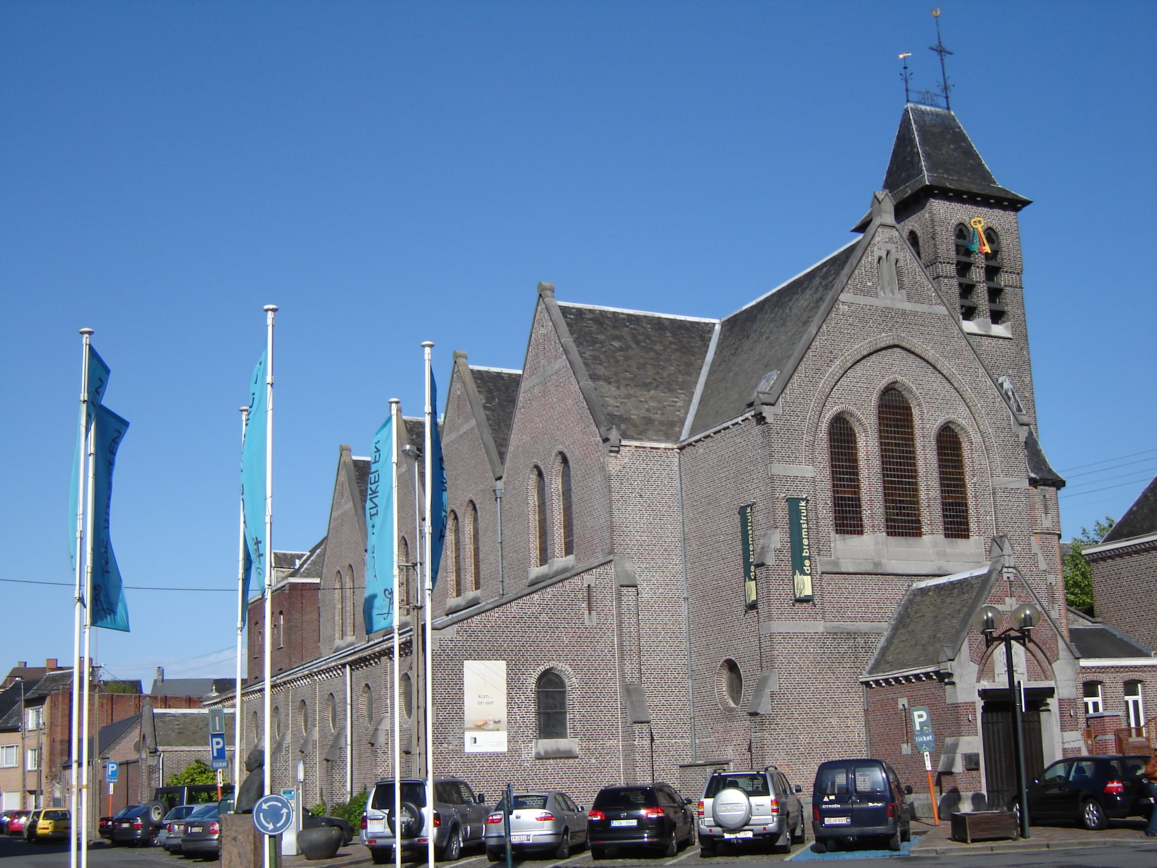 Church of Our Lady, church of the convent of the Redemptorists, in Roeselare, West Flanders, Belgium